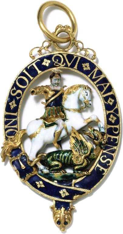 Badge of The Order of the Garter, England, About 1640, Width 4.5 cm x heighth 9.3 cm (maximum, estimated) V&A Museum no. 273-1869